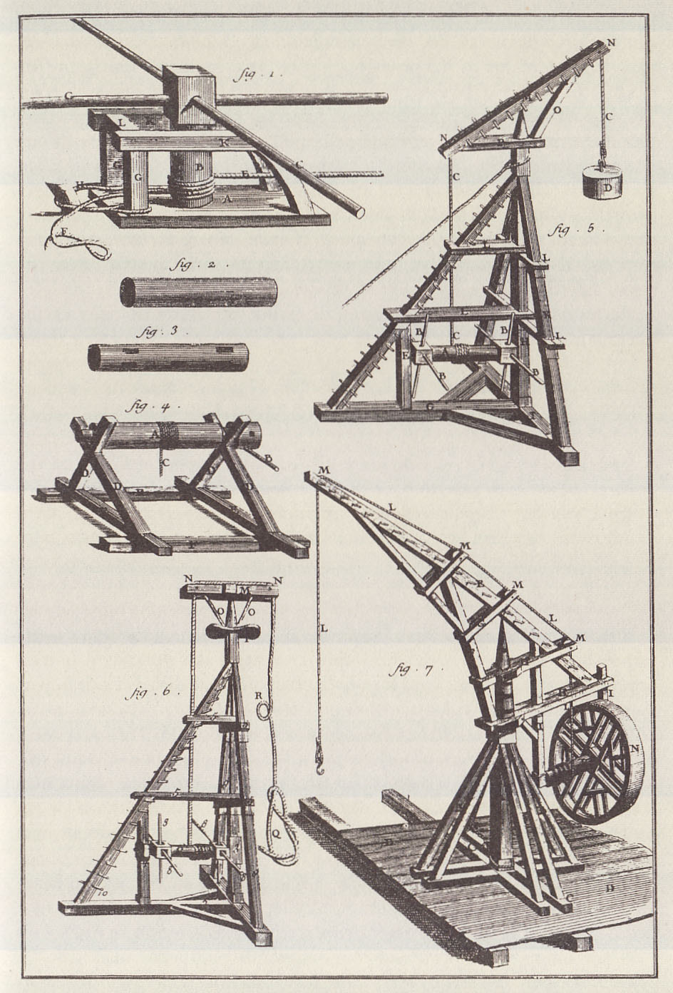 This diagram was used in a section called "Artificial Hermeneutics, or Reverse Engineering", in chapter 8 ("Biology is Engineering") of Daniel Dennett's book Darwin's Dangerous Idea (1995), with the following caption: "Early rotating cranes and other devices for raising or moving loads. (From Diderot and d'Alembert, Encyclopédie [1751-72], reproduced in Fitchen 1986.)" The citation is Fitchen, John. 1986. Building Construction Before Mechanization. Cambridge, Mass.: MIT Press. (326 pp.)